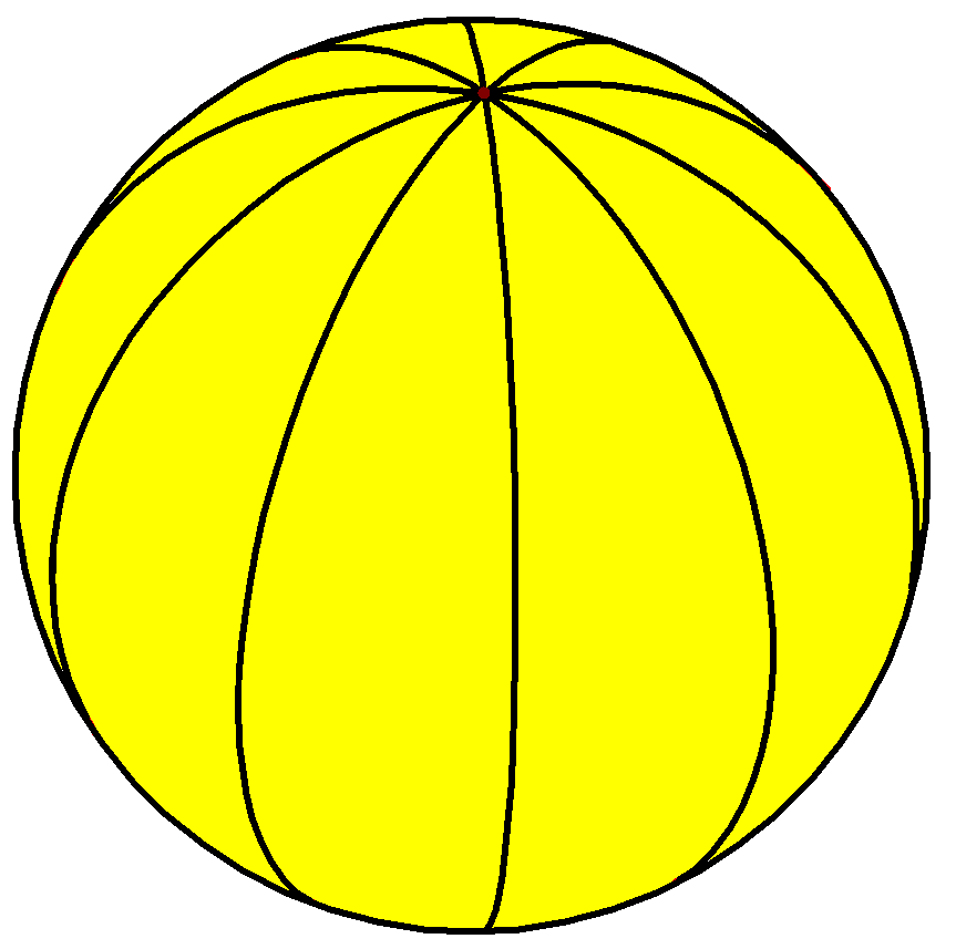 Spherical polyhedron